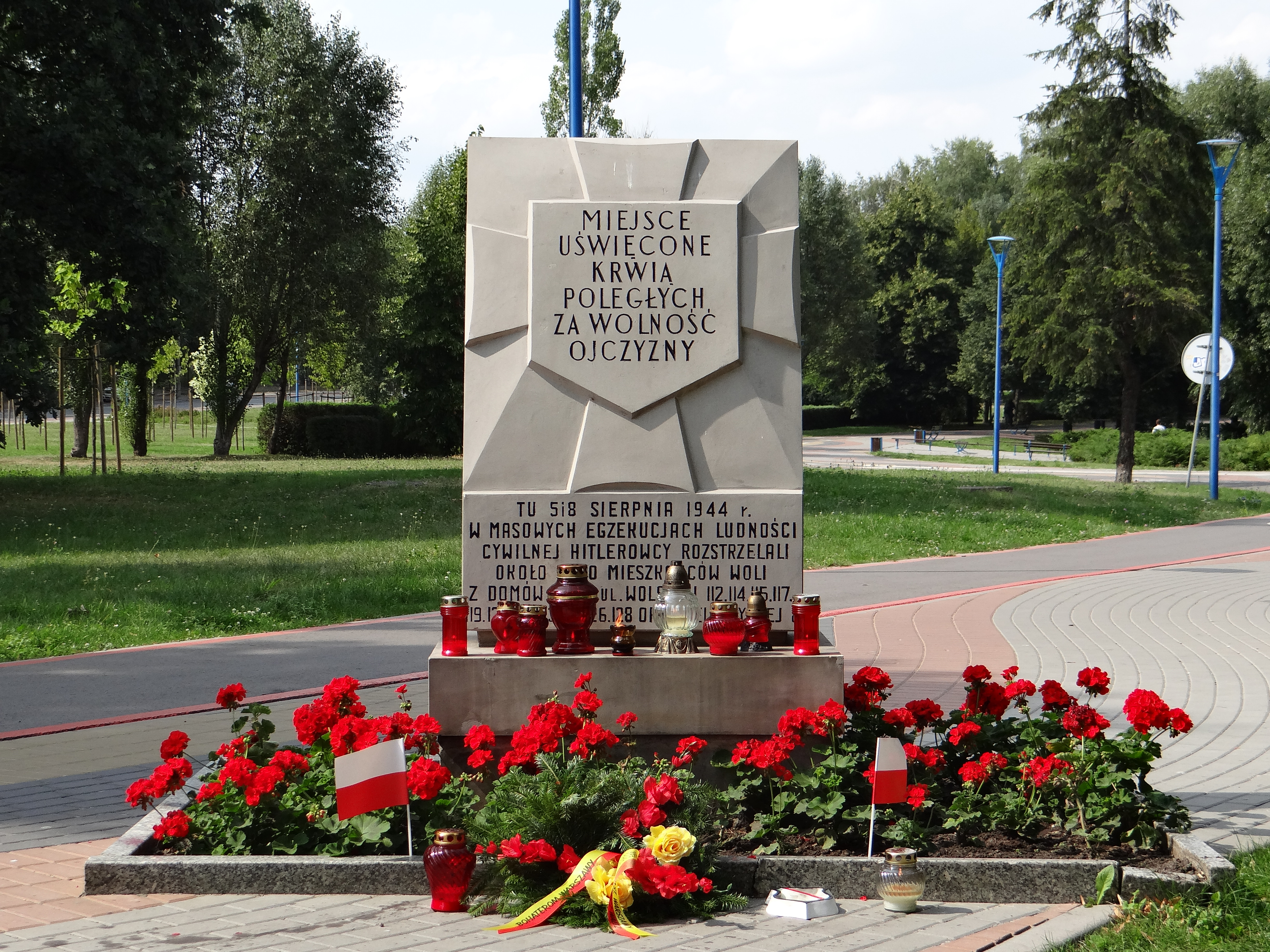 Plaque at Szymańskiego Park in Warsaw (in place of former forge at Wolska 122/124 Street), commemorating hundreds of Polish civilians murdered in this place by German troops during so-called Wola Massacre (between 5th and 8th August 1944 – first days of Warsaw Uprising).